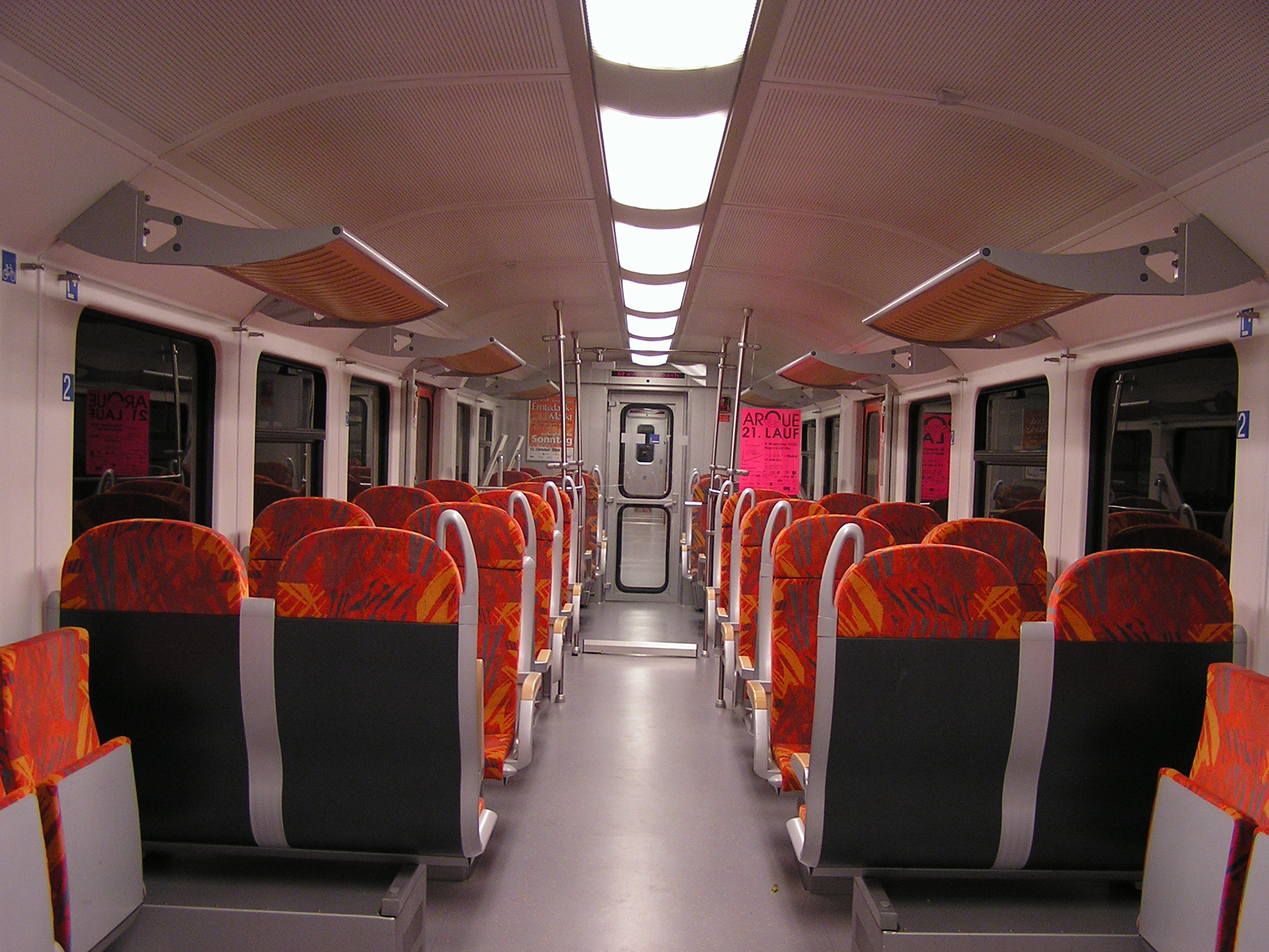 Interior of a modernised VT 2E of the HLB